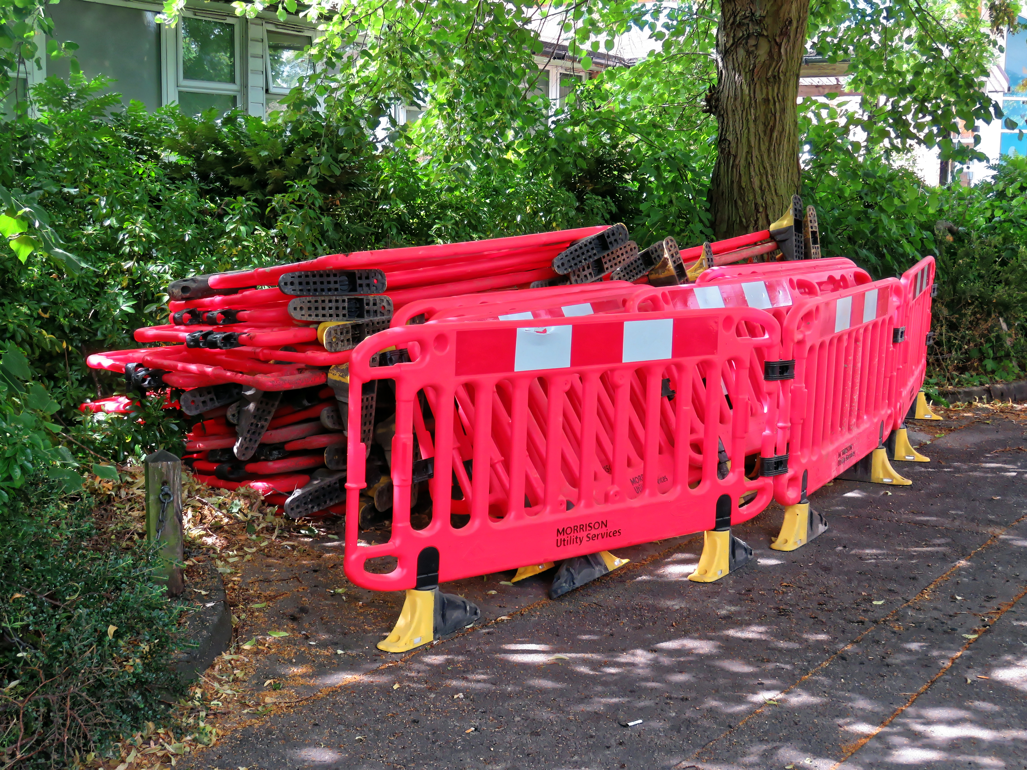 Red plastic barriers stacked along a public pavement of The Stow (road and commercial area), in Harlow, Essex England.Camera: Canon PowerShot SX60 HSSoftware: File lens-corrected, optimized, perhaps cropped, with DxO OpticsPro 11 Elite, and likely further optimized with Adobe Photoshop CS2.